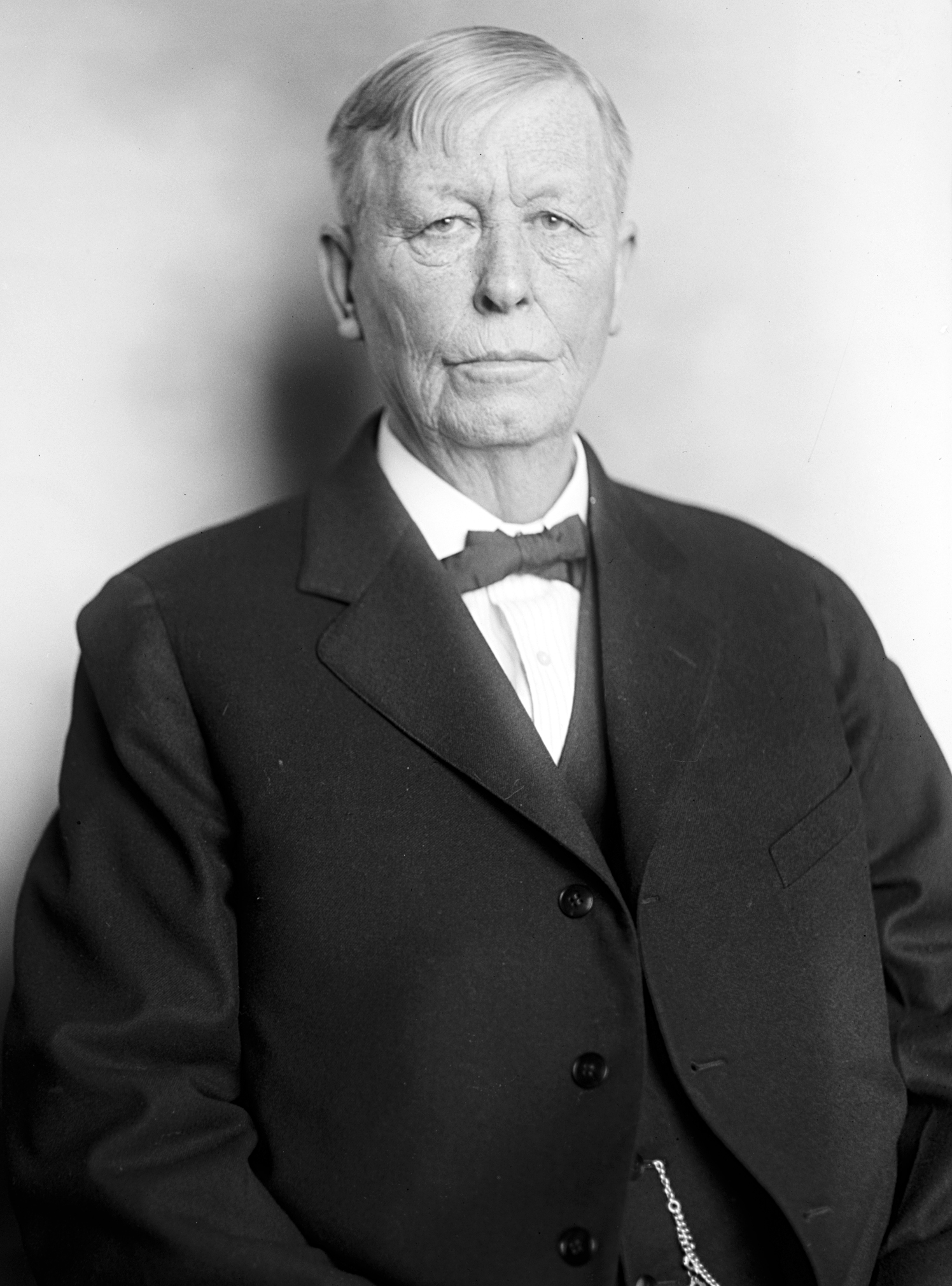 William W. Rucker, US Representative from Missouri